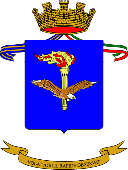 Coat of Arms of the Army Aviation Center; Italian Army.